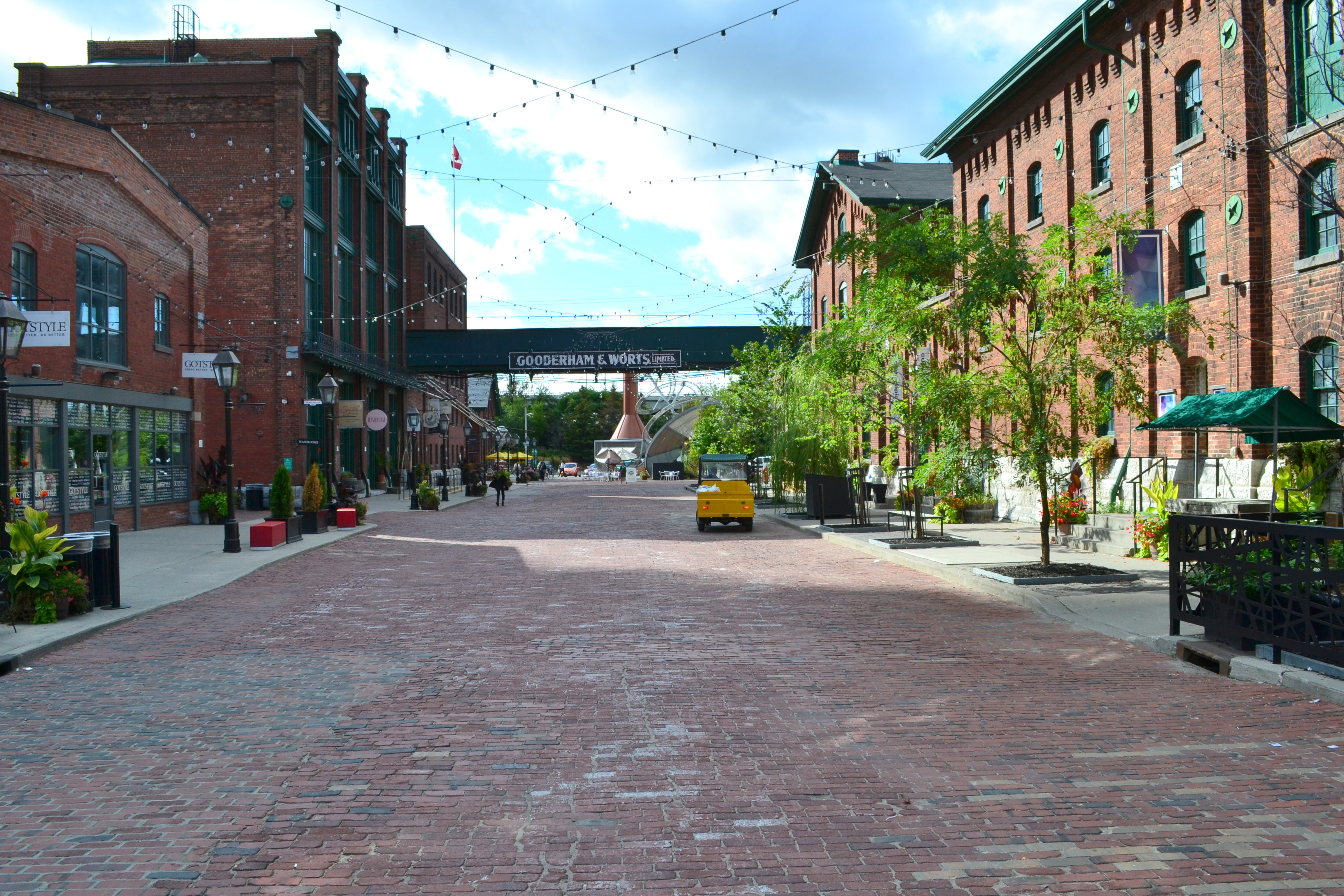 Entrance to Distillery District (2)